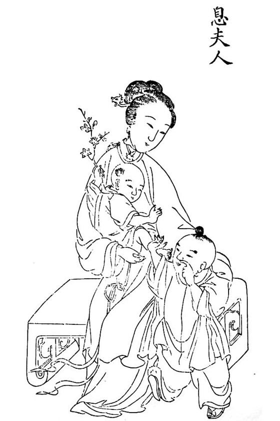 Lady Xi